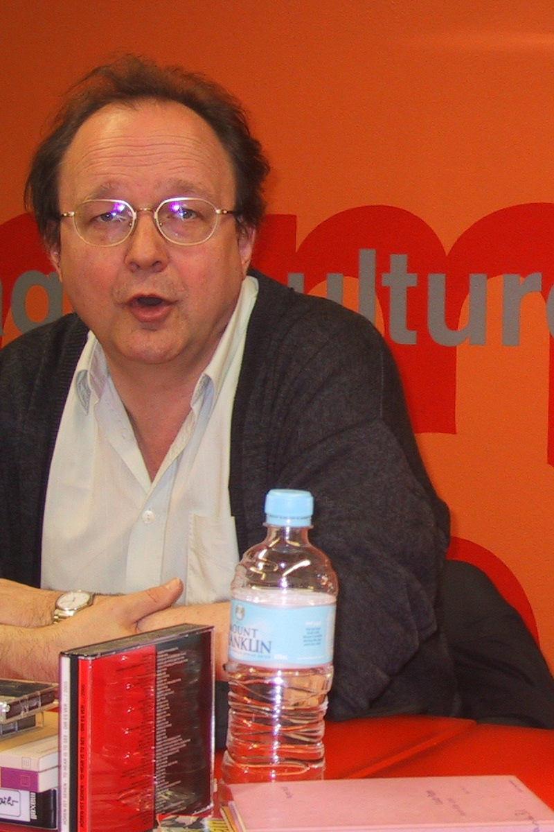 Lucas Cejpek at a reading at the University of Sydney (2005).